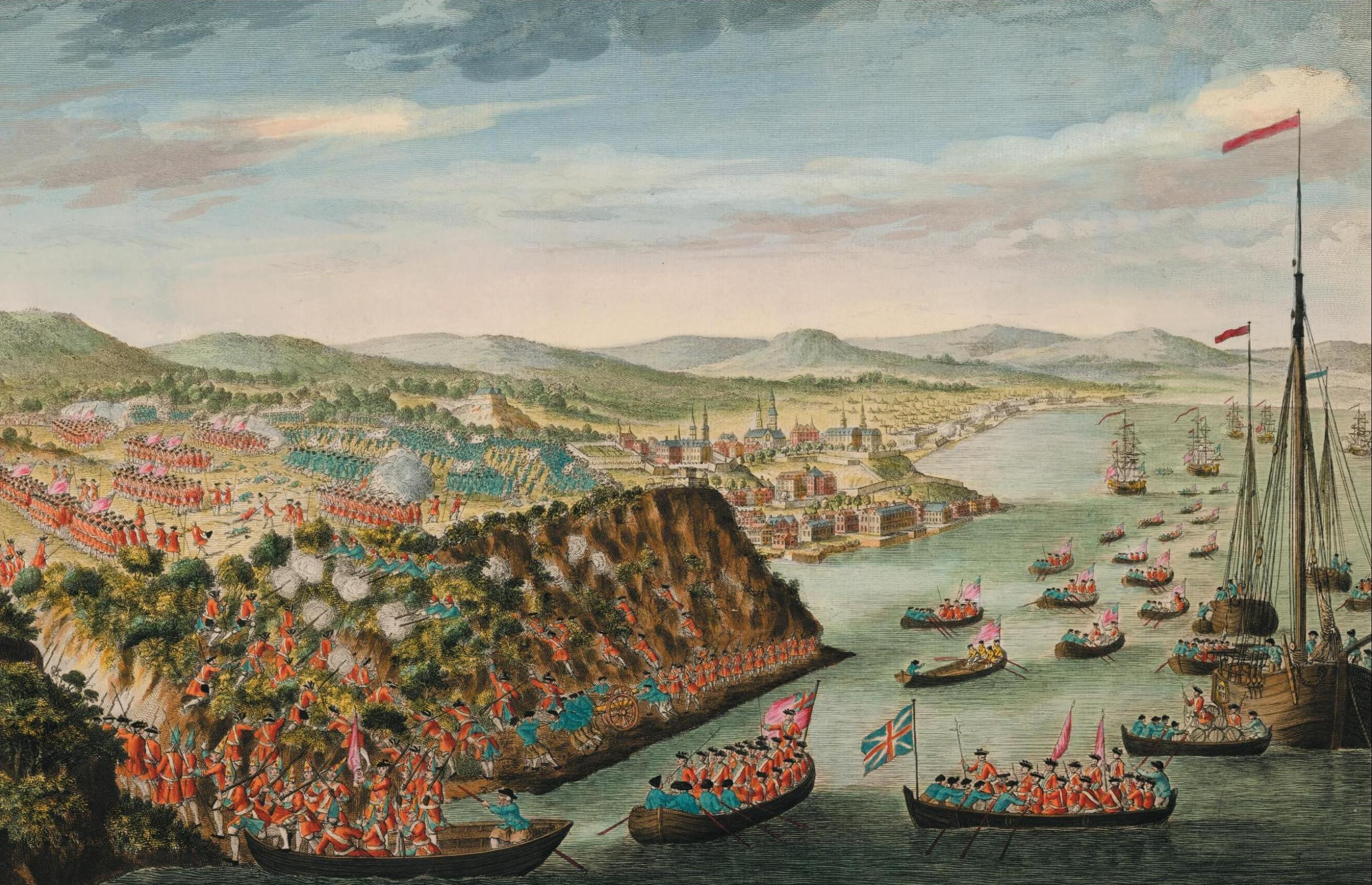 This 1797 engraving is based on a sketch made by Hervey Smyth, General Wolfe's aide-de-camp during the siege of Quebec. A view of the taking of Quebec, 13th September 1759.